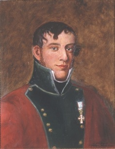 Georg Ulrich Wasmuth (1788 – 1814) Norwegian military officer and a member of the Norwegian Constituent Assembly in 1814.